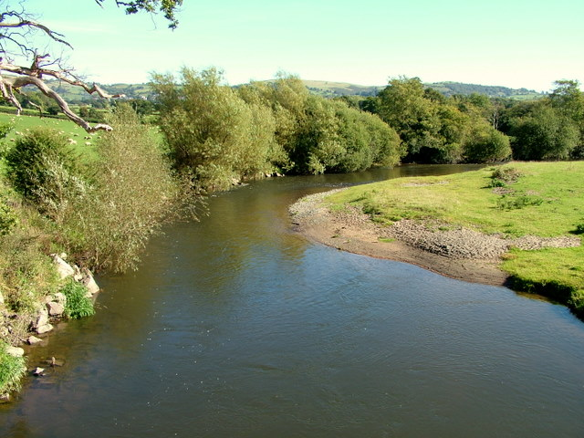 River Clwyd Taken from Pont Llannerch.